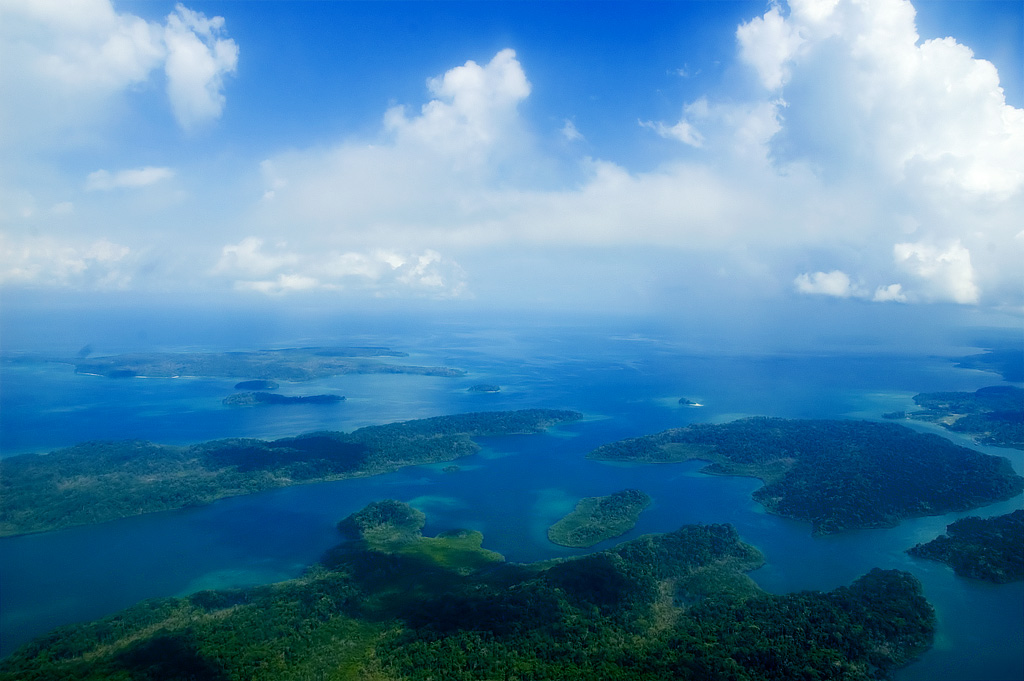 Andaman Islands, India I shot quite a few frames of the Andaman Islands prior to landing. A sheet of clouds was inbetween my camera and the picturesque landscape. However, I grabbed every oppurtunity the clear weather provided me to capture a glimpse of this place from up above. It was worth every bit of it.